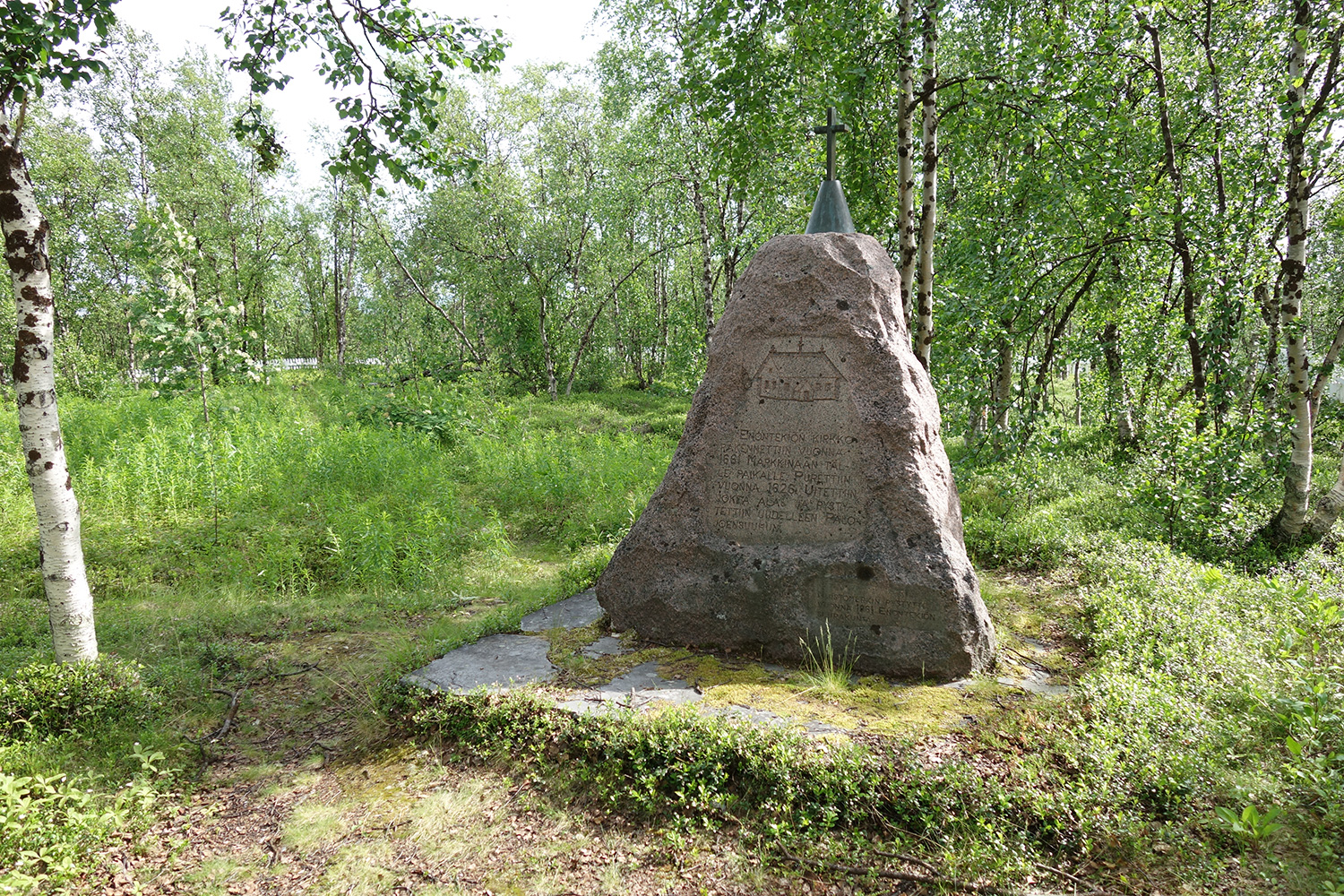 Memorial stone on the old church place in Markkina, Enontekiö, finnish Lapland.